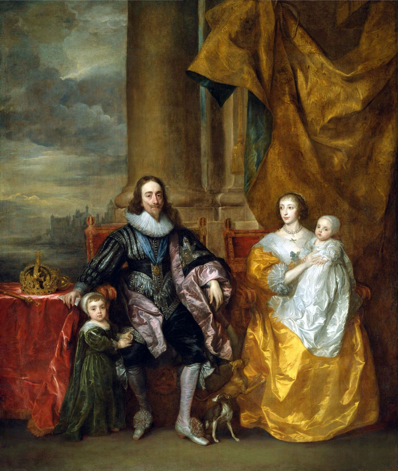 Charles I and his wife Henrietta Maria with their eldest children: Charles, Prince of Wales (Charles II) next to his father and Mary, the Princess Royal, in the arms of her mother.